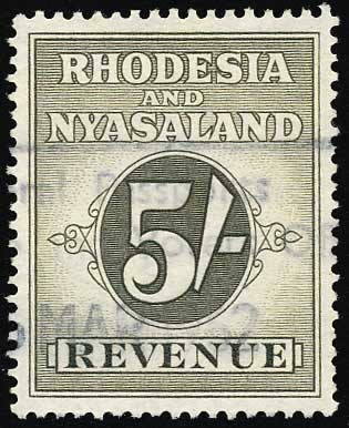 Revenue stamp of the Federation of Rhodesia & Nyasaland, 5 shillings, 1956